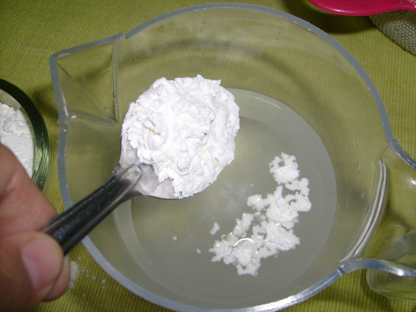 Cornstarch being mixed with water, to prepare Rat Na sauce.